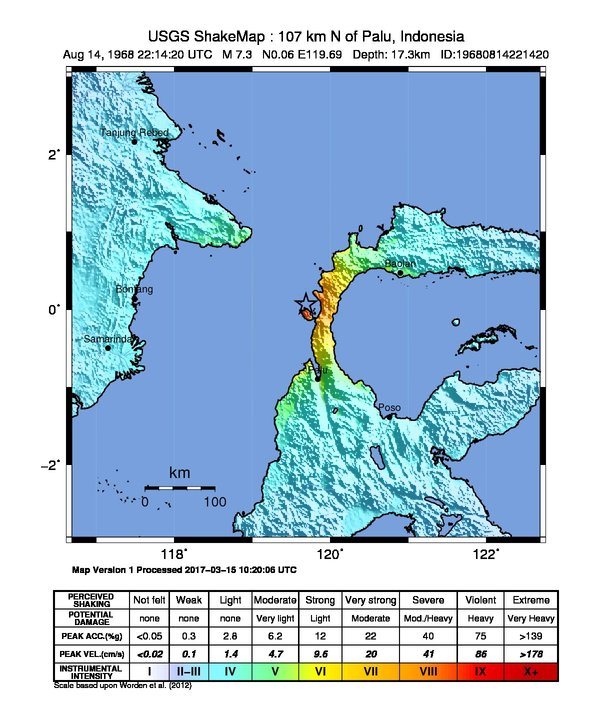 1968 Sulawesi earthquake - Shakemap